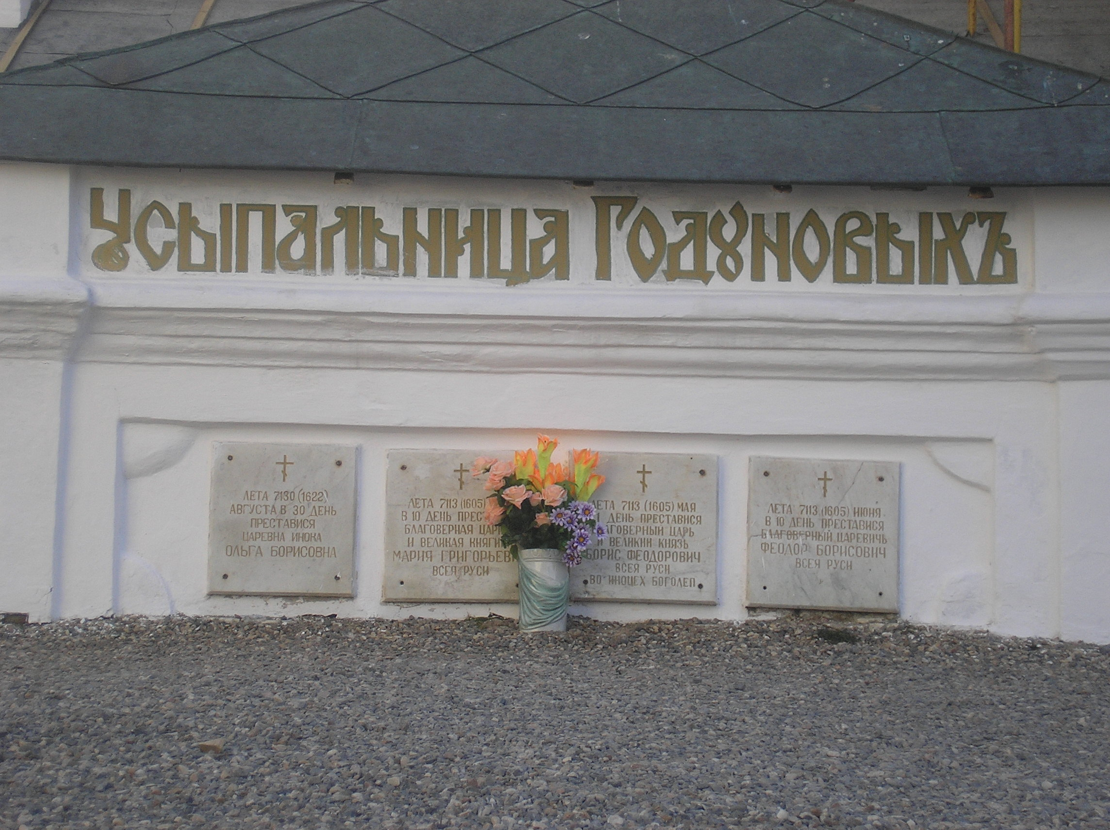 Mausoleum of the Godunovs in front of the Cathedral of the Assumption at the Trinity Lavra of St. Sergius in Sergiyev Posad, Russia